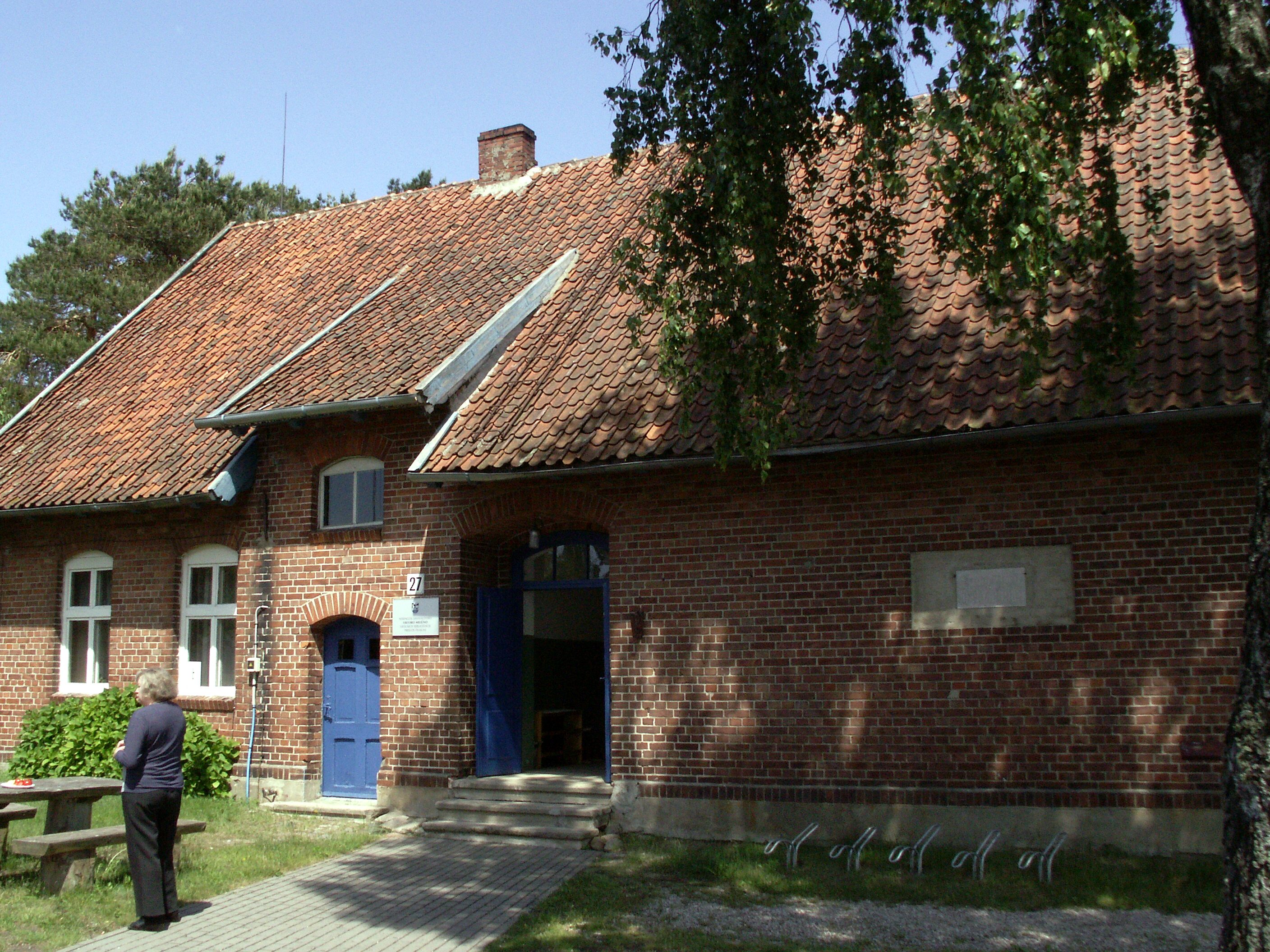 Former Preila school, Neringa, Lithuania